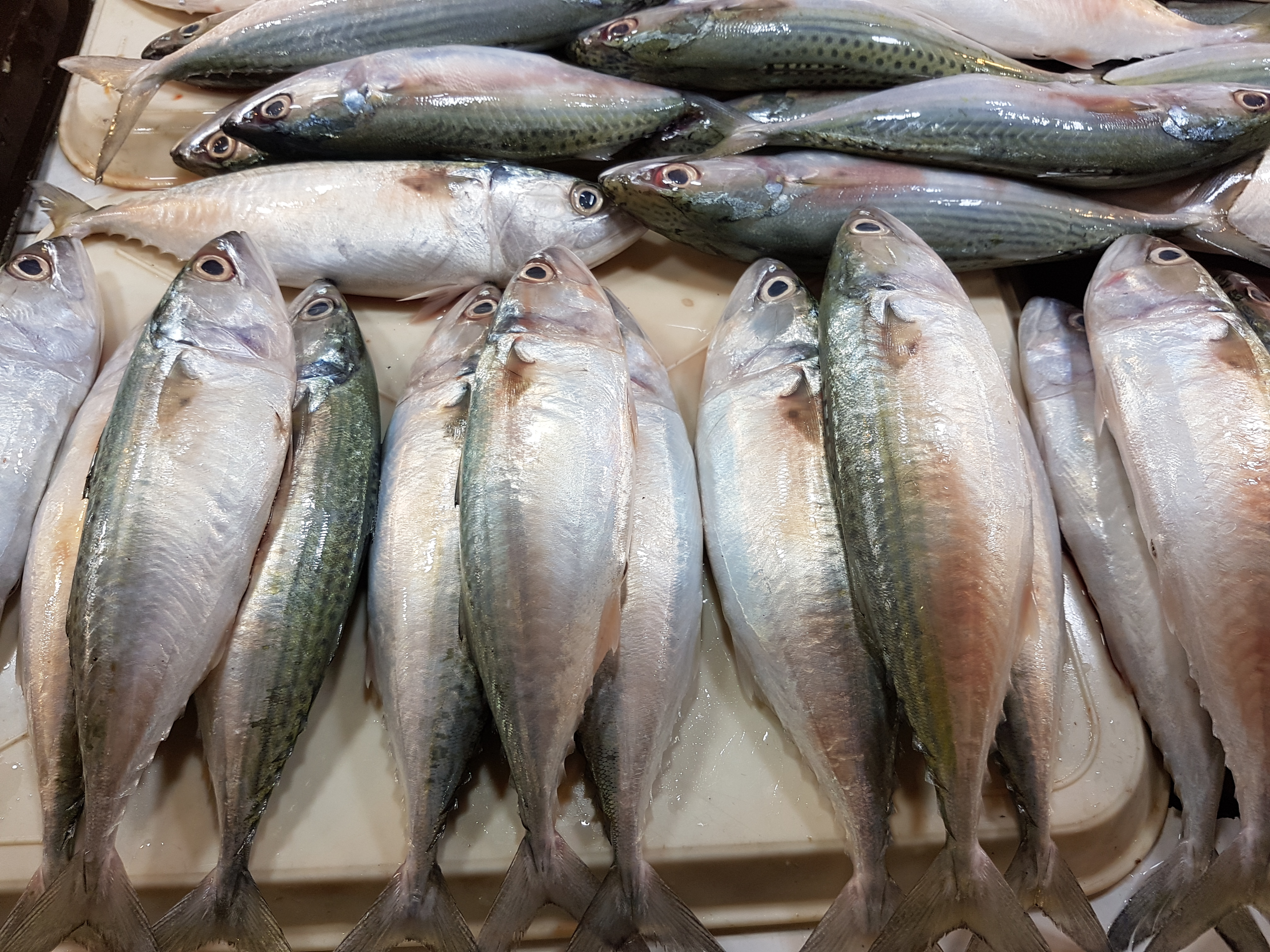 Rastrelliger faughni (Island Mackerel) in a fish market, Mindanao, Philippines